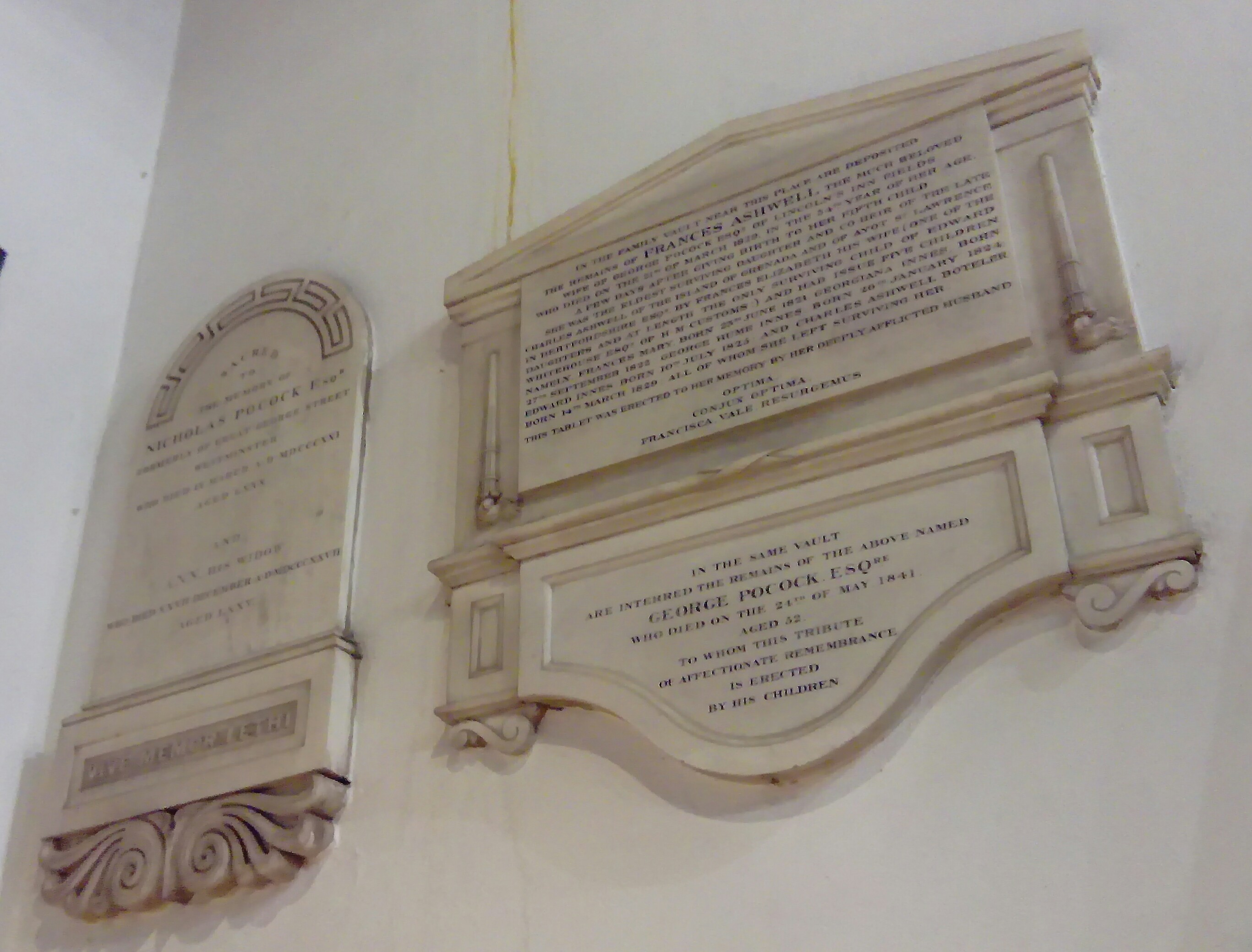 Memorials to Nicholas Pocock (left) and his daughter in law and son (right) in Holy Trinity Church, Cookham